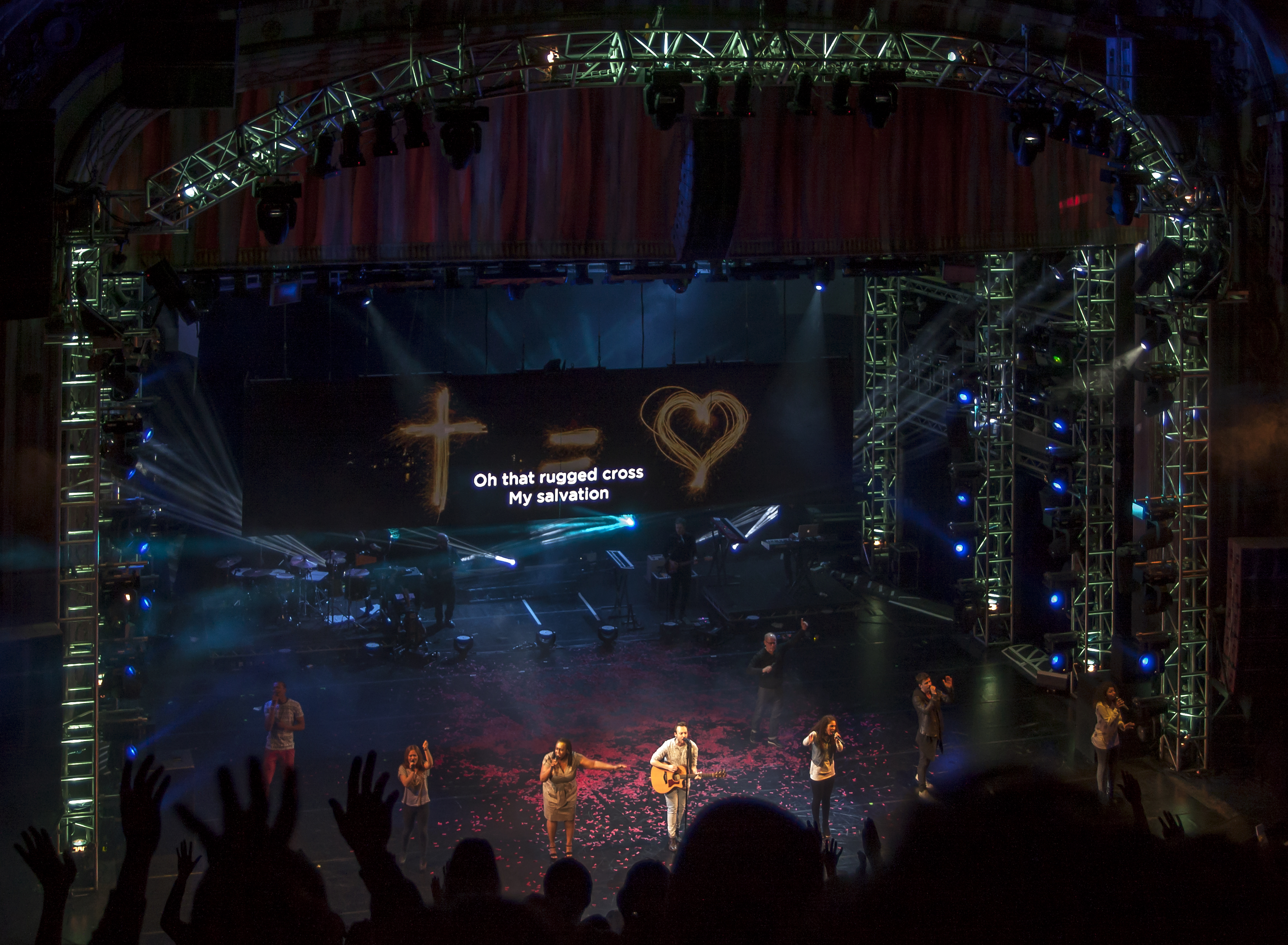 Easter service at Hillsong London 2013.